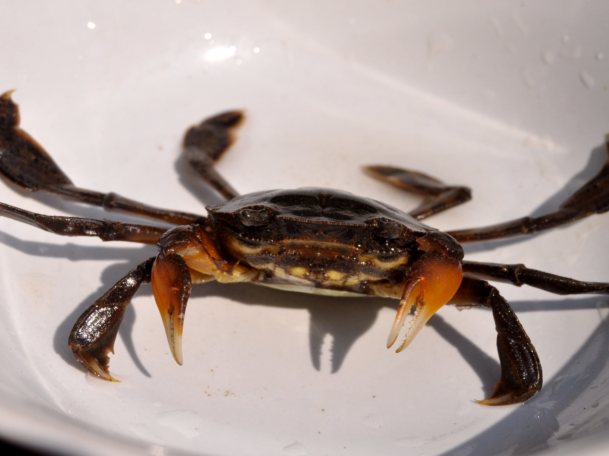 Oceanic paddler crab, Varuna litterata, female, 34 mm CW (carapace width). From Banyumas, Central Java, Indonesia.